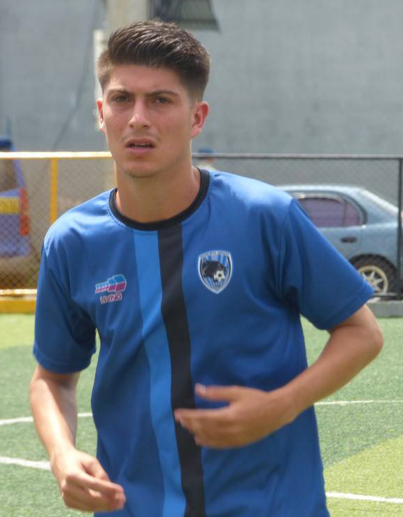 6-8-2017. Luis Hernández como jugador del Municipal Grecia previo al partido frente a Guadalupe F.C.